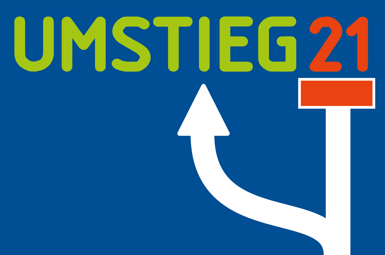 Logo for the Umstieg 21 concept.